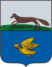 Menzelinsk (Tatarstan), coat of arms (1782)